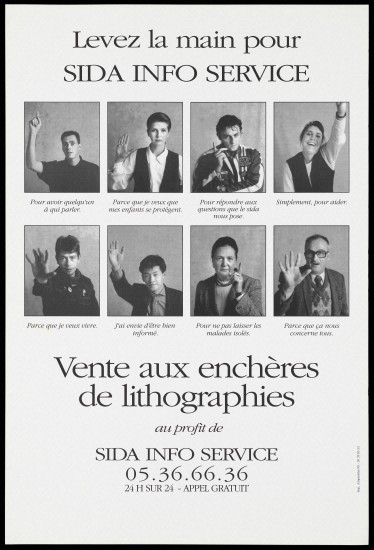 Topic-LCSH: AIDS (Disease) AIDS (Disease) -- Patients. Helplines. Information services. Auctions. Lithography. Genre/Technique: Posters. Lithographs.